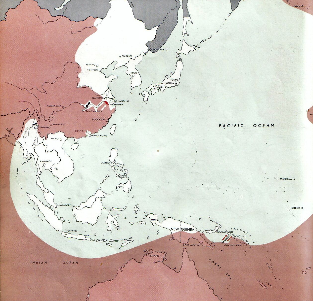 Map of the front against Japan as of 1 Nov 1943: This map is taken from the source "Atlas of the World Battle Fronts in Semimonthly Phases to August 15th 1945: Supplement to The Biennial report of The Chief of Staff of the United States Army July 1, 1943 to June 30 1945 To the Secretary of War". (See Cover, Forward and Map details)